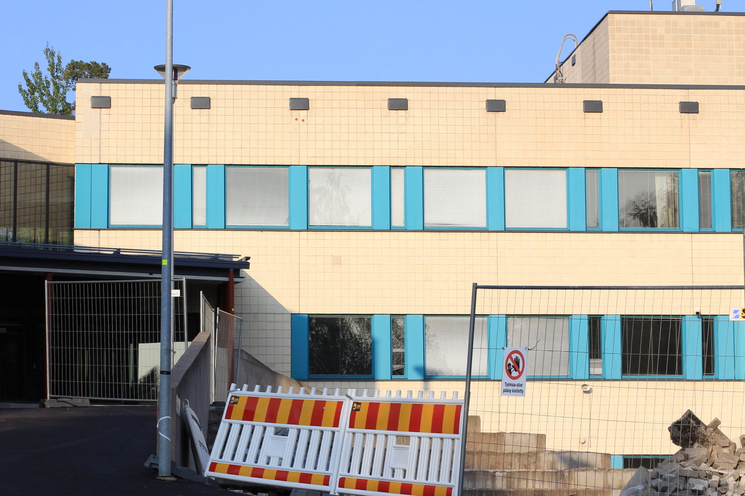 Olari school, Espoo, Finland. - The school yard is under reparation.